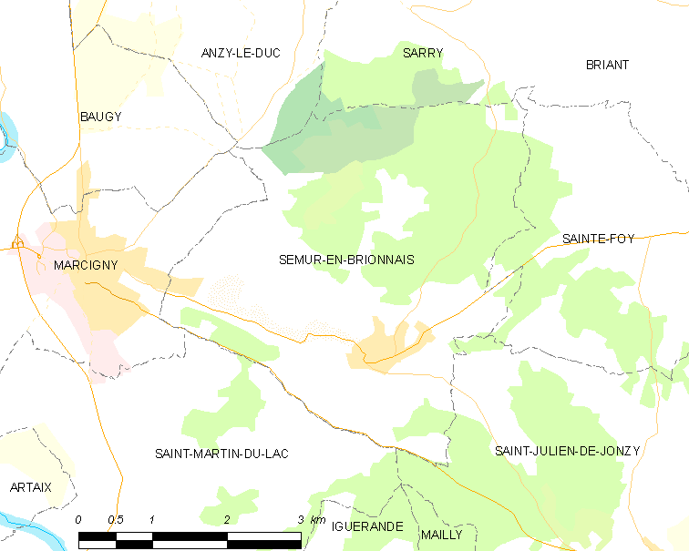 Map of French municipality